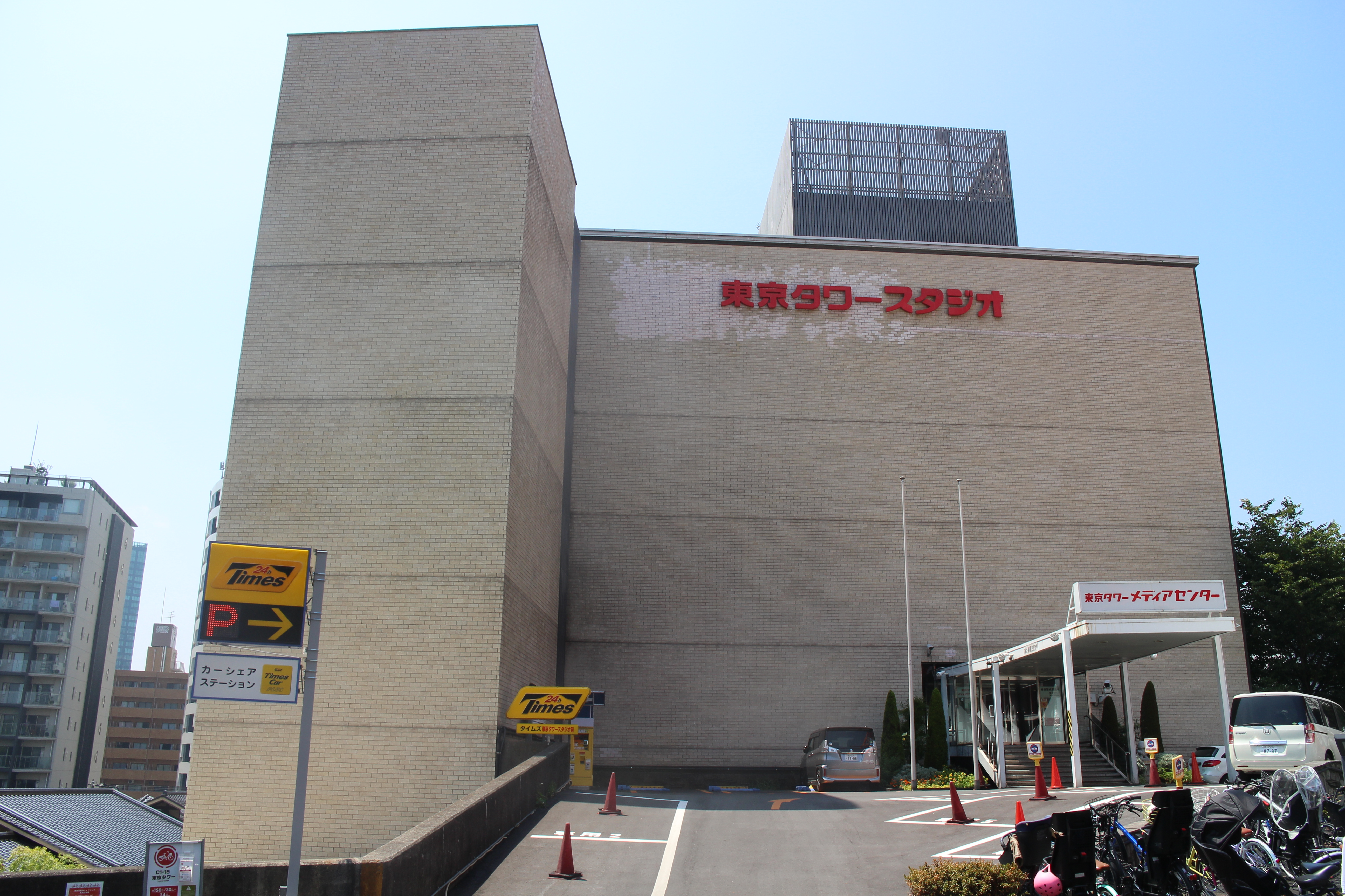 Tokyo tower studio